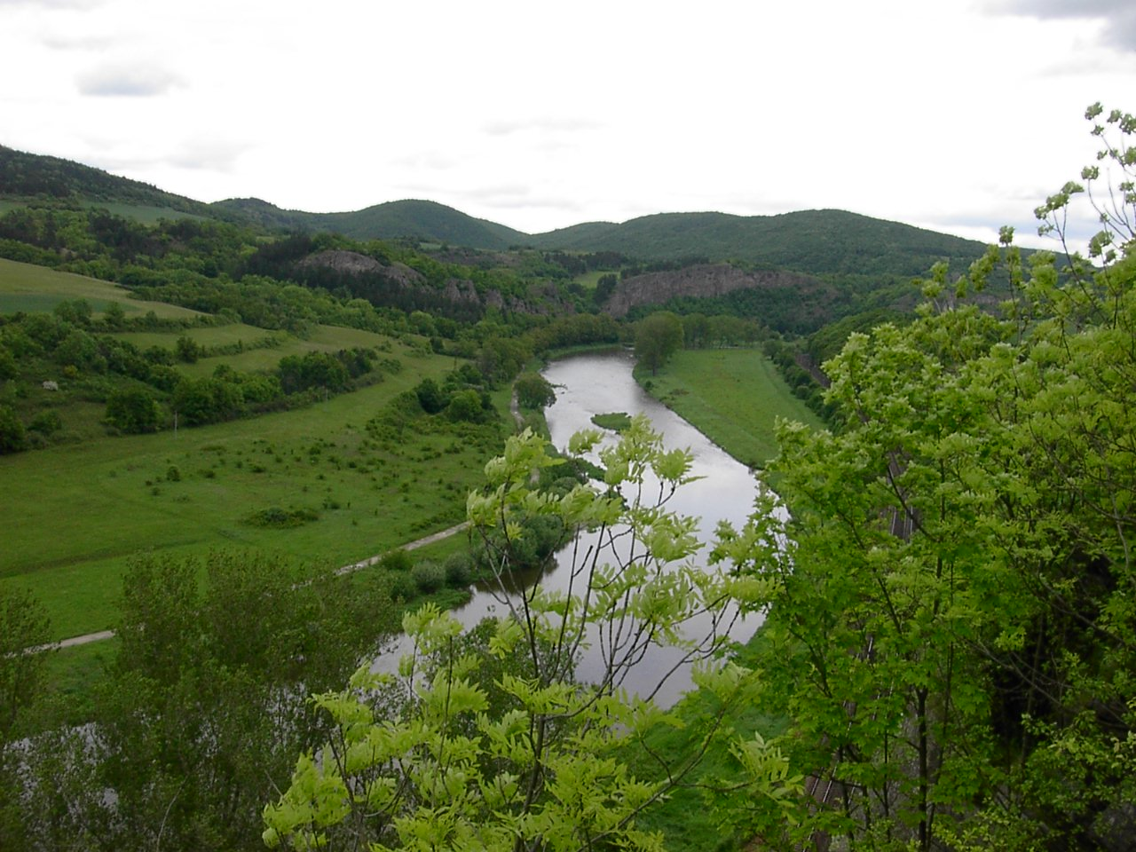 The Berounka River under Tetín, Czech Republic.